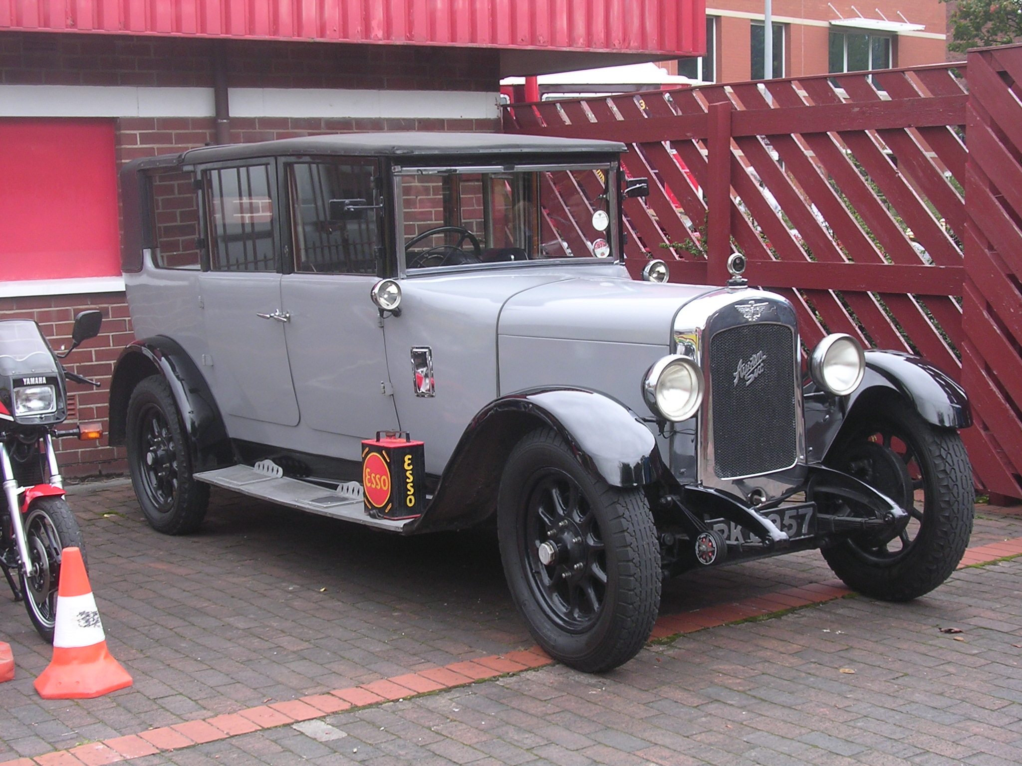 Austin Twenty landaulette (too big for a 16)